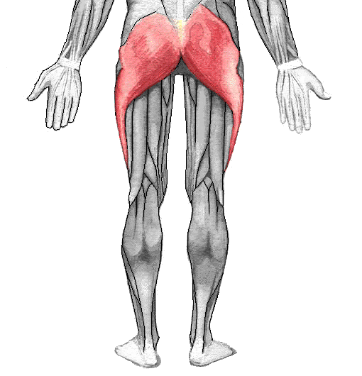 Gluteus maximus muscle * compressed with pngcrush